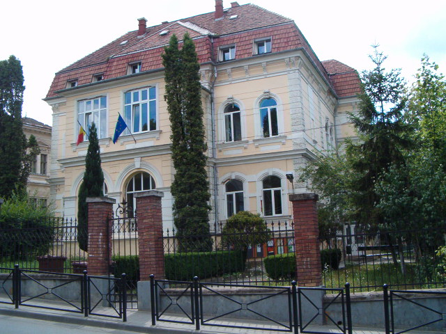 Babes-Bolyai University, Cluj-Napoca, Romania